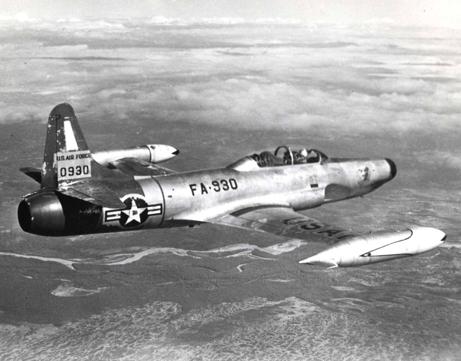 Lockheed F-94B-1-LO Starfigher 50-0930